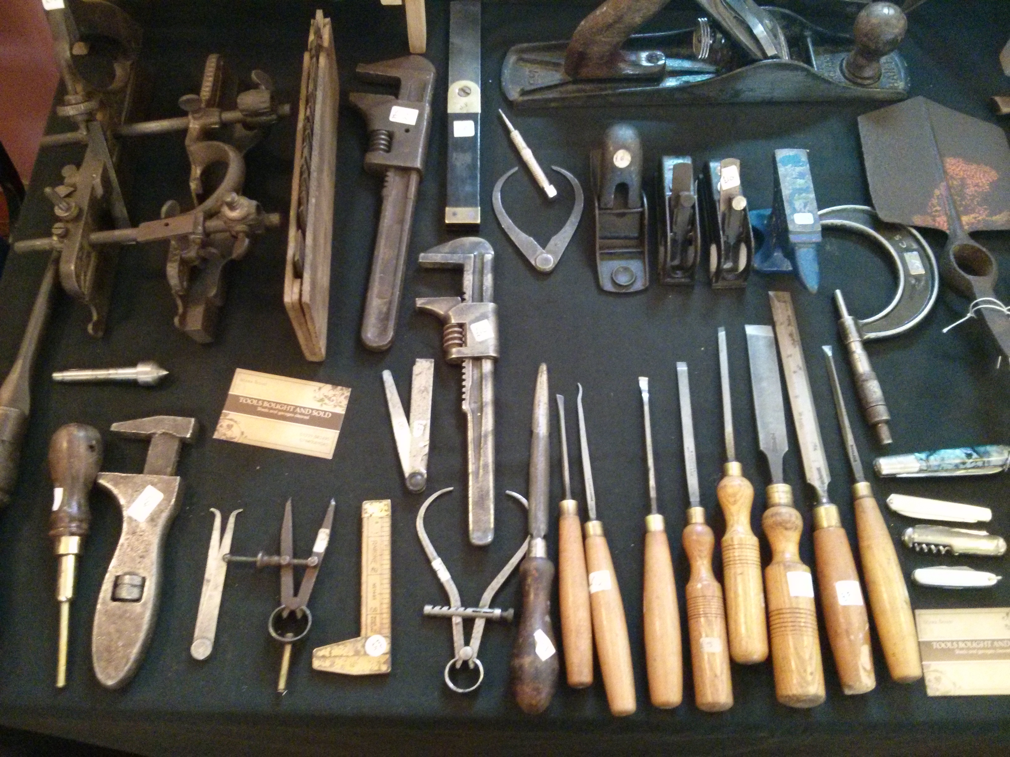 old tools at antiques fair in Cartmel